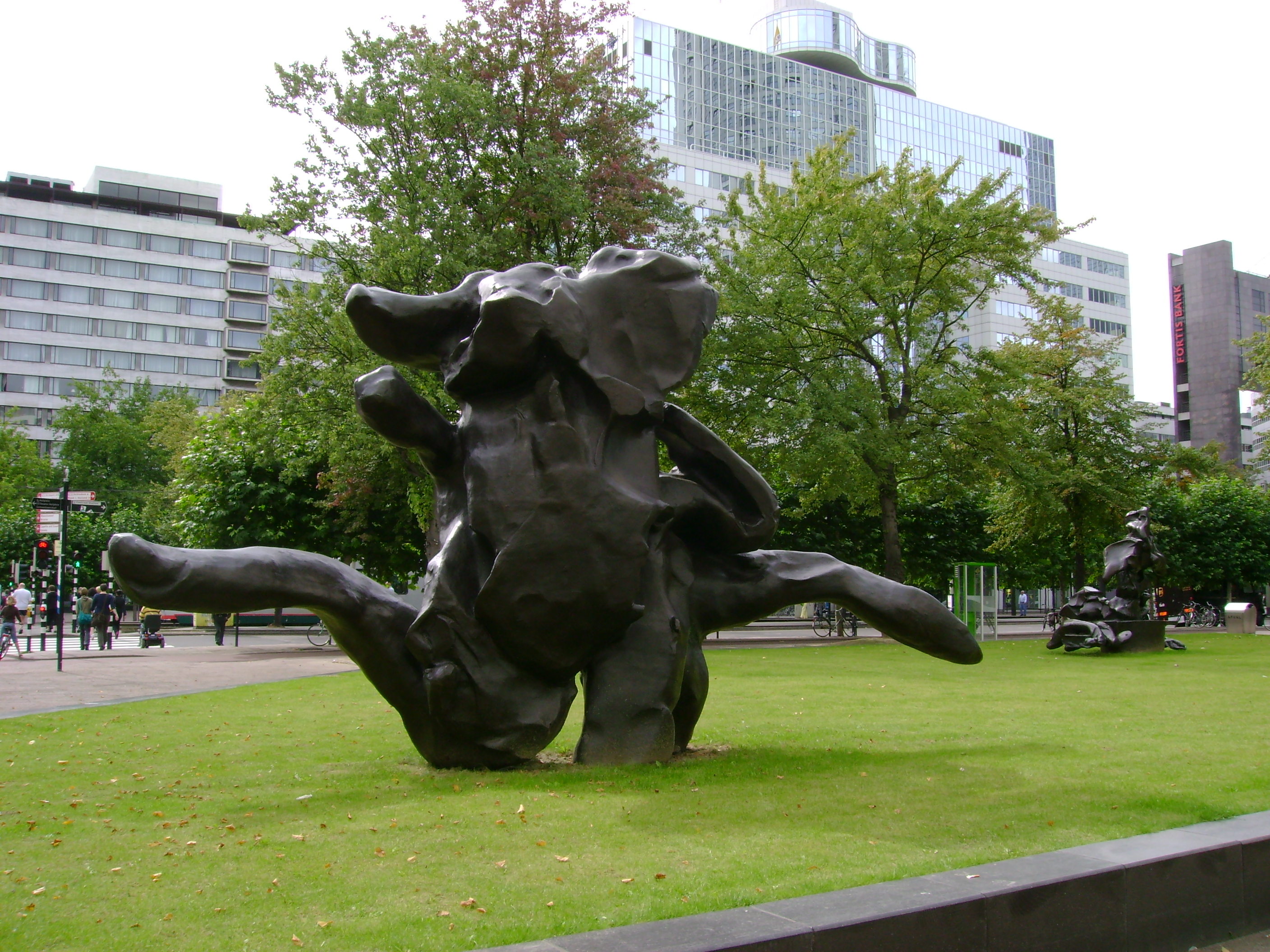 Two sculptures: Standing Figure and Seated Woman (1969-1980) by Willem de Kooning in Rotterdam/The Netherlands